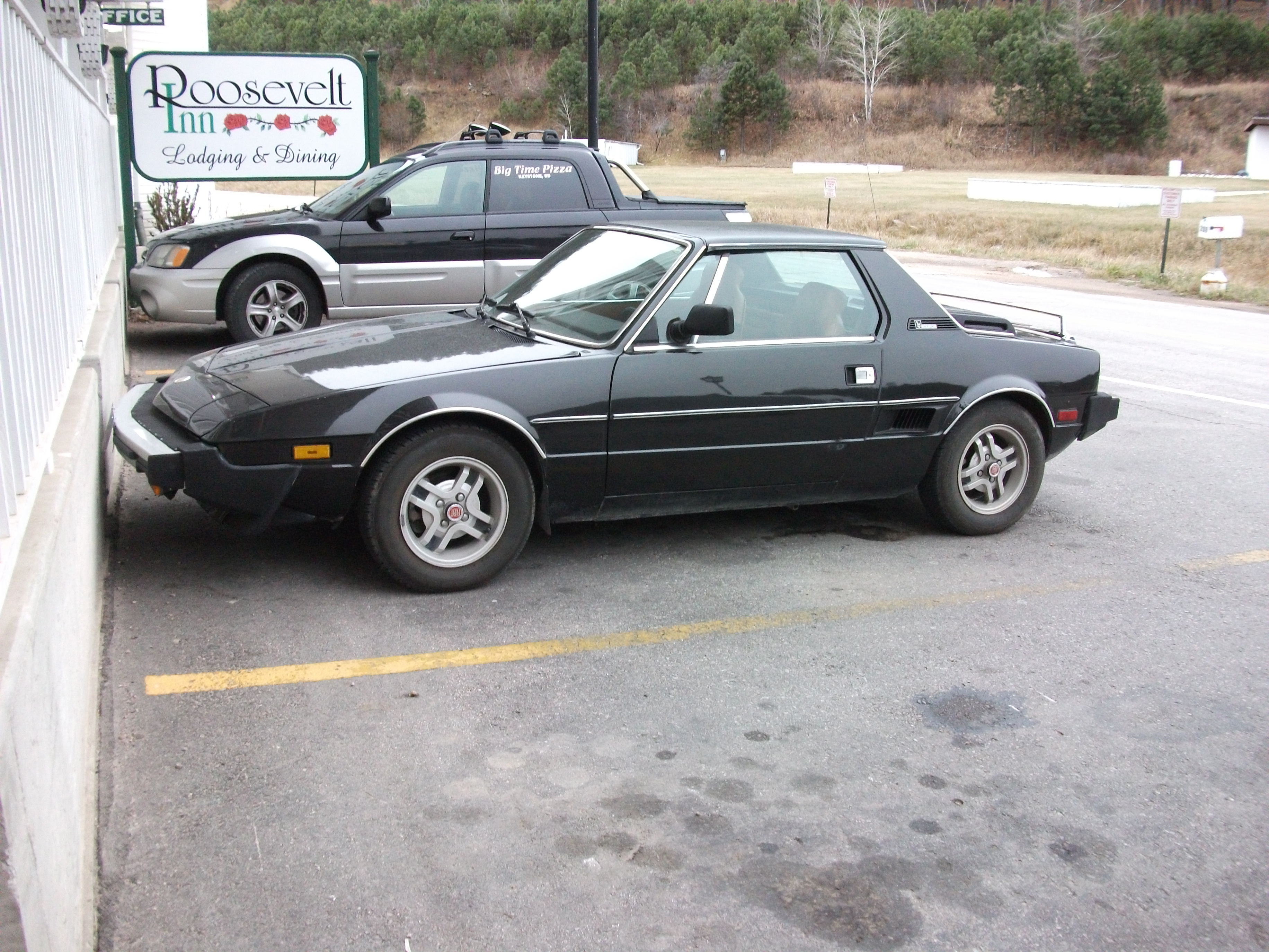 A rather nice Bertone X19 outside a hotel near Mount Rushmore in South Dakota in a place called Keystone. Pretty much everything was closed for the season except this place. Bonus Subaru Baja behind.